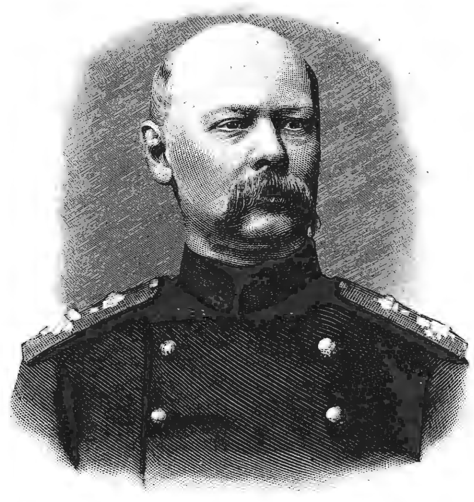 Ditrikhs, Fyodor Karlovich